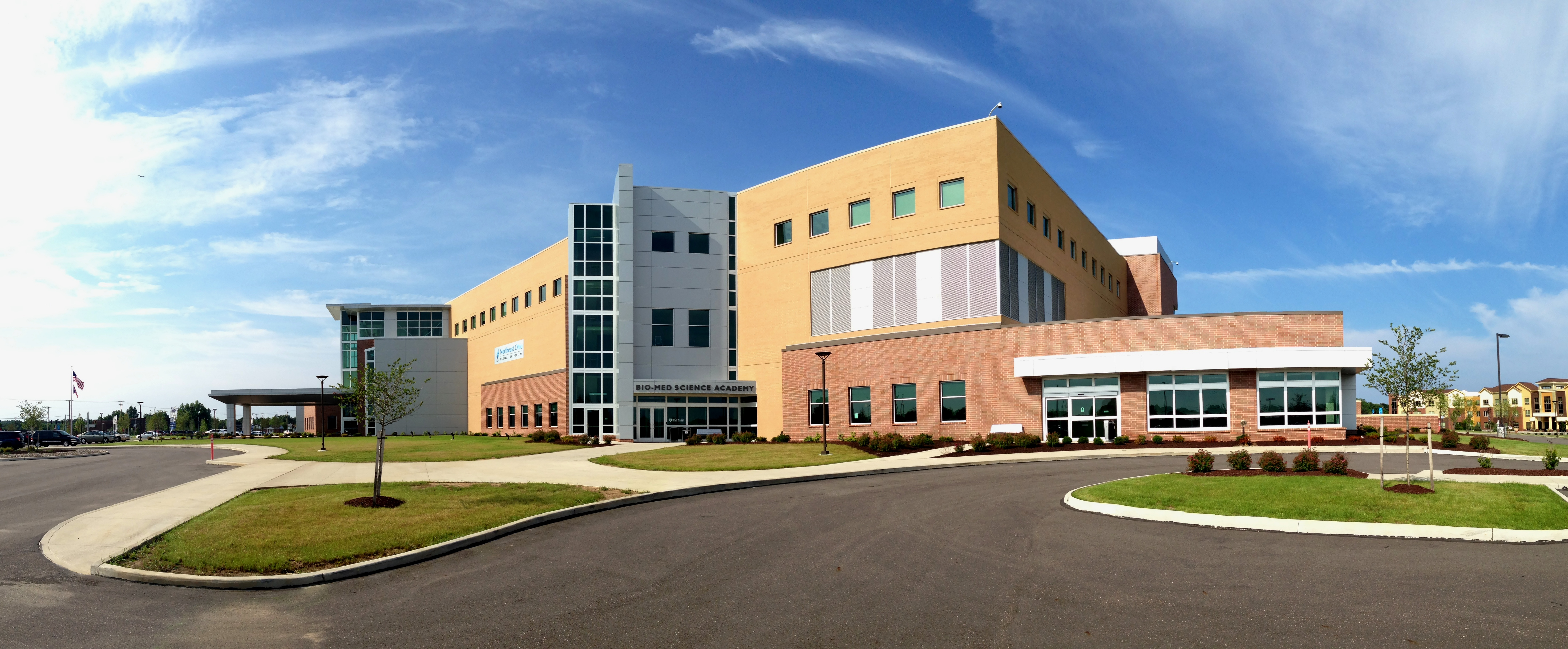 Main entrance for the Bio-Med Science Academy at the NEOMED Education and Wellness Center (NEW Center) at the Northeast Ohio Medical University in Rootstown, Ohio, United States. The NEW Center opened in August 2014. Bio-Med Academy is located on the third floor.